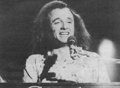 Thijs van Leer